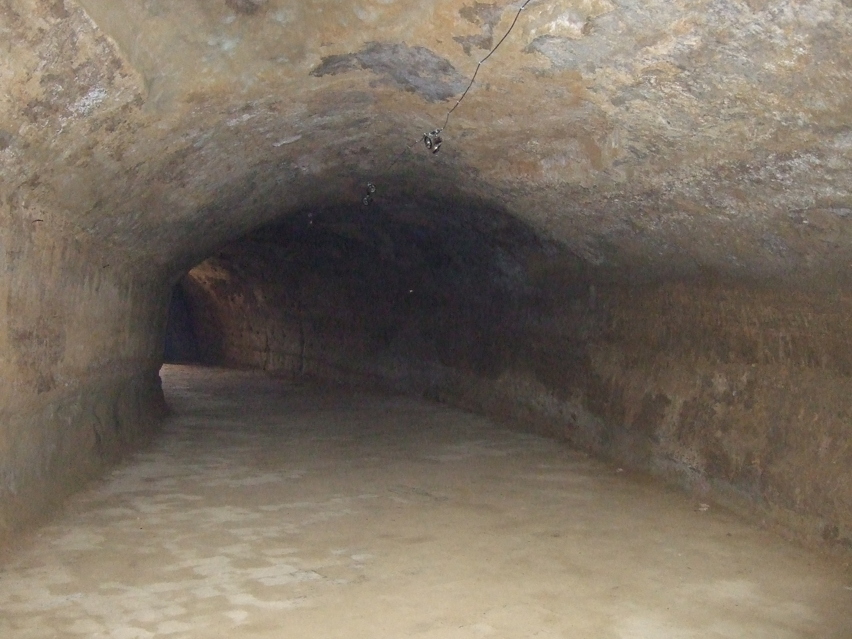 Castle of Monzon (Aragon, Spain)